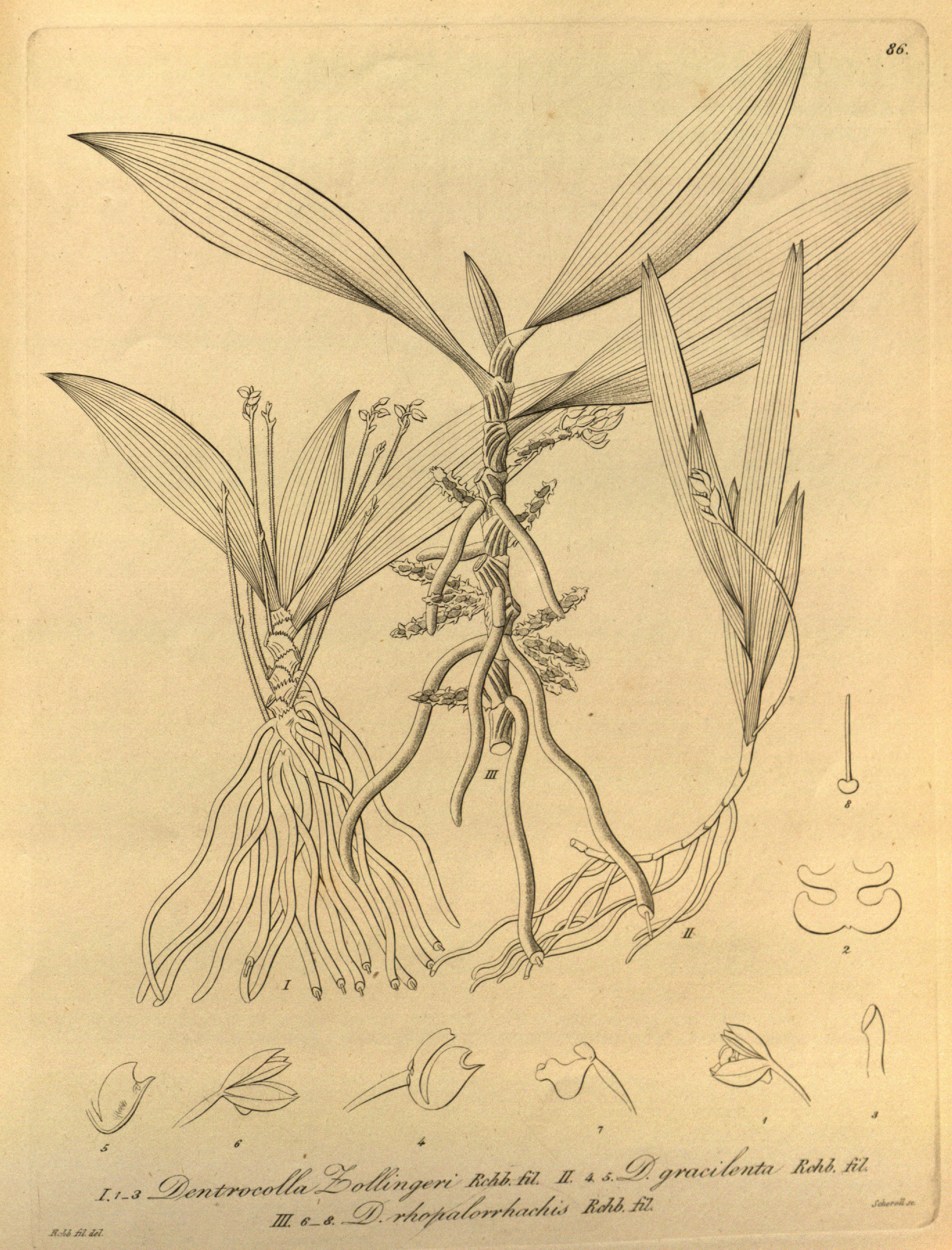 Illustration of: I. Grosourdya zollingeri (as syn. Dendrocolla zollingeri, in this plate misspelled Dentrocolla) II. Grosourdya zollingeri (as syn. Dendrocolla gracilenta) III.Tuberolabium rhopalorrhachis (as syn. Dendrocolla rhopalorrhachis)